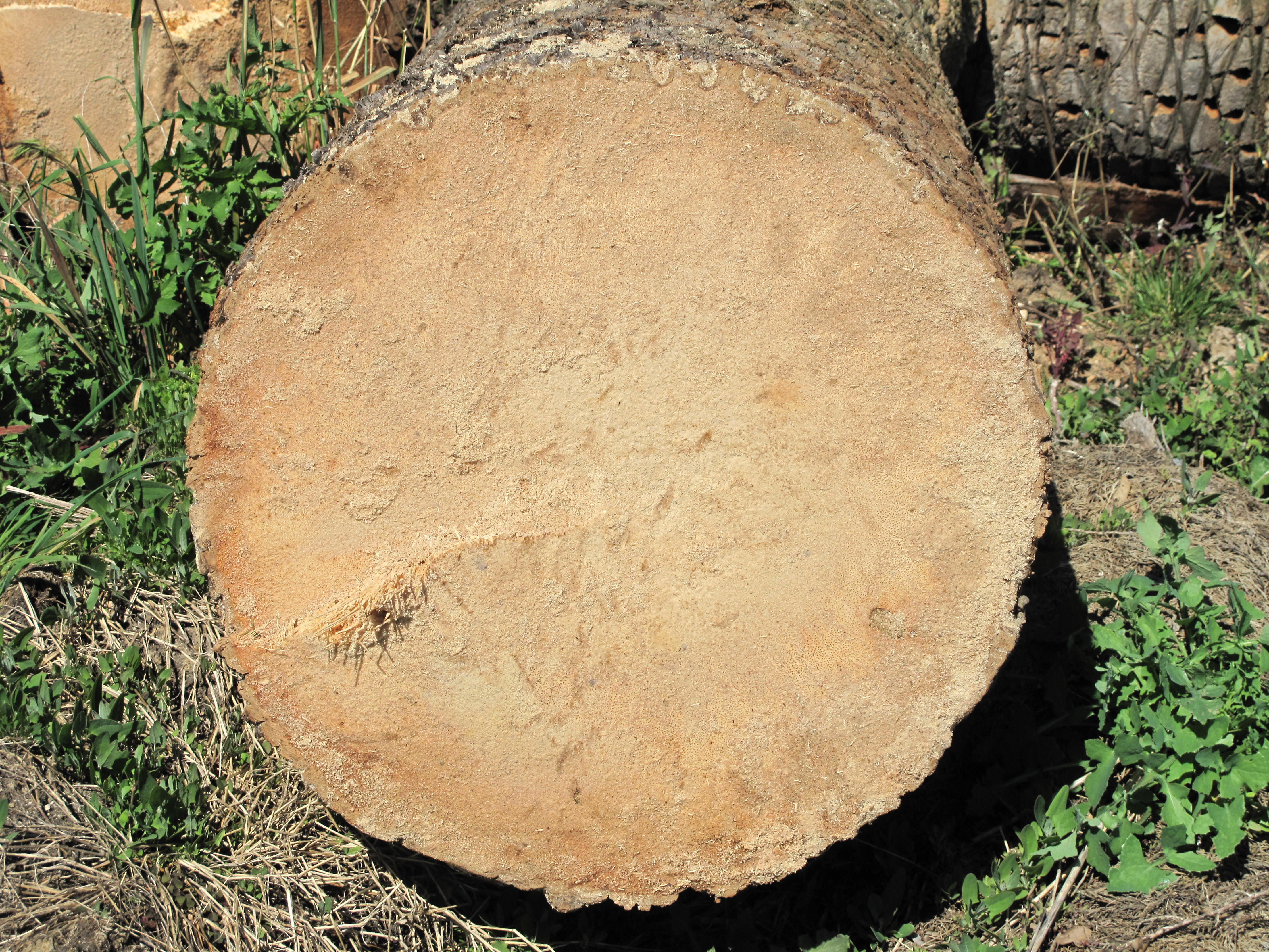 Cross section of a trunk of palm tree. Diameter ca 60 cm. Presqu'île du Cap-Ferrat, Alpes-Maritimes, France. We dont see growth rings, because palm trees are not trees.